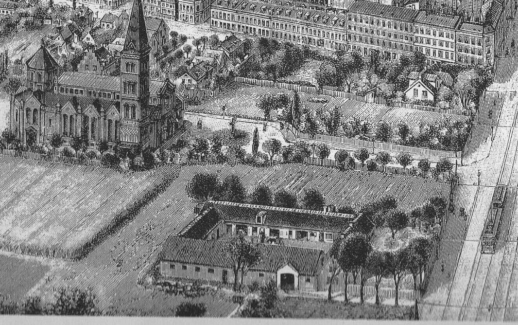 Detail from wood carving showing Jesuskirken in Valby, Copenhagen, with Valby Langgade to the right and Gl. Jernbanevej in the background.